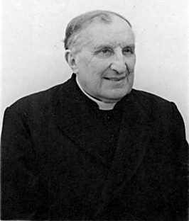 photo of Mons. Giulio Belvederi